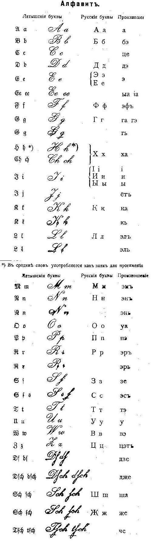 Old Latvian alphabet